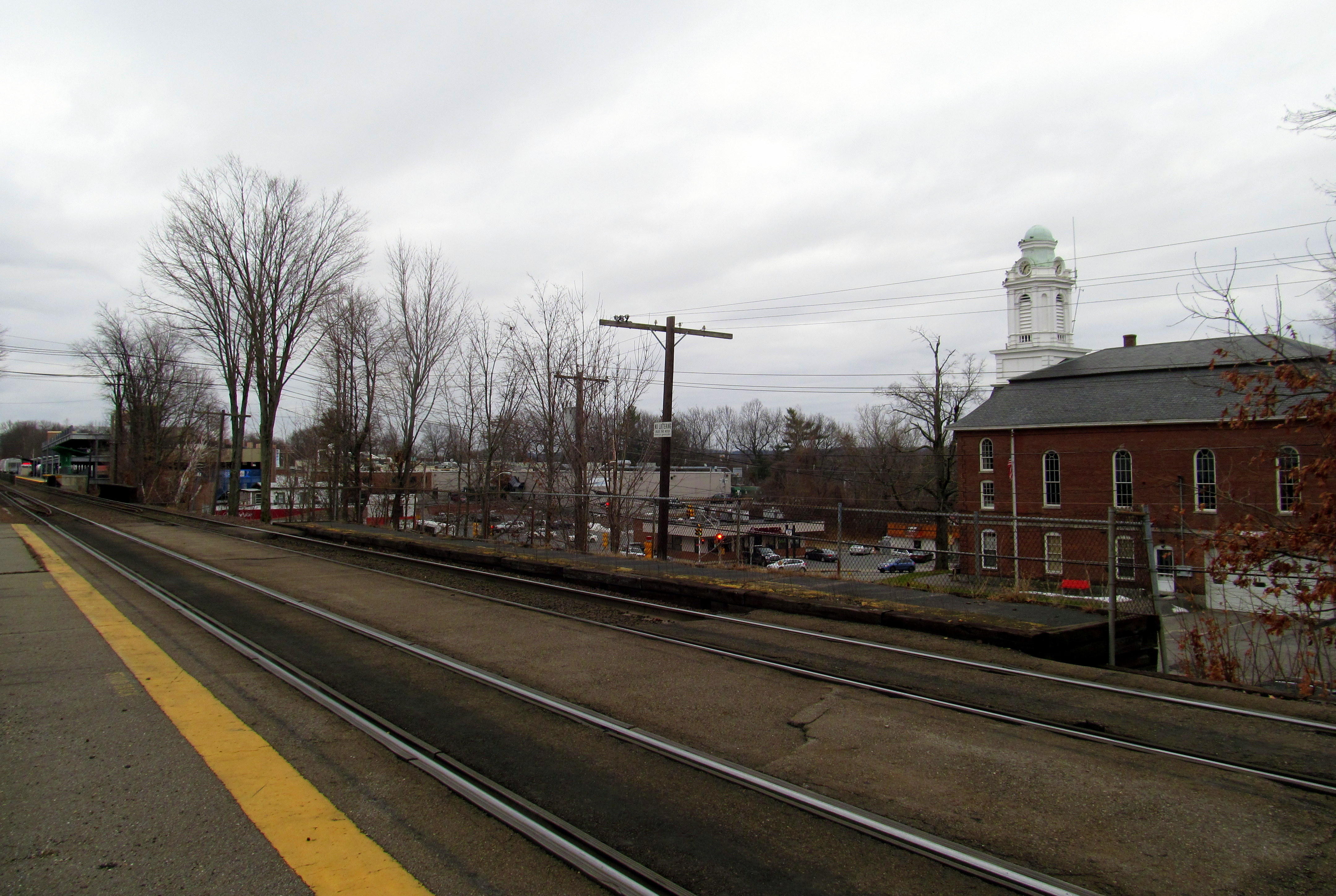 The 1980-built platforms at North Leominster station. These bare, non-accessible platforms were replaced by the accessible modern station nearby in 2004.